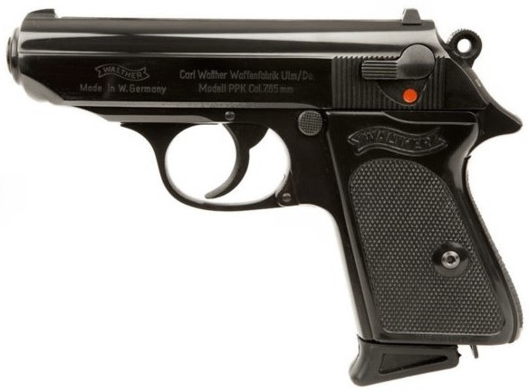 Walther ppk Deutschland